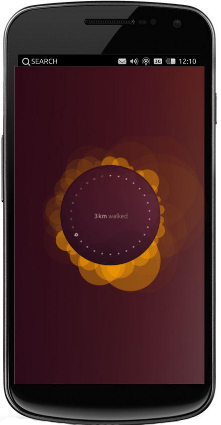 Ubuntu Touch Developer Preview 12.10 running on Galaxy Nexus, Welcome screen displayed.